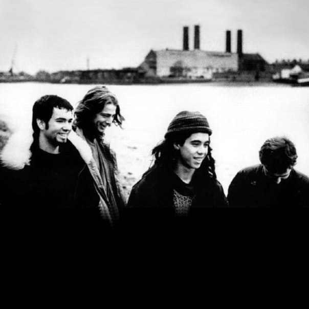 Post-rock band, Bark Psychosis, in 1992. Photograph by Phil Nicholls.